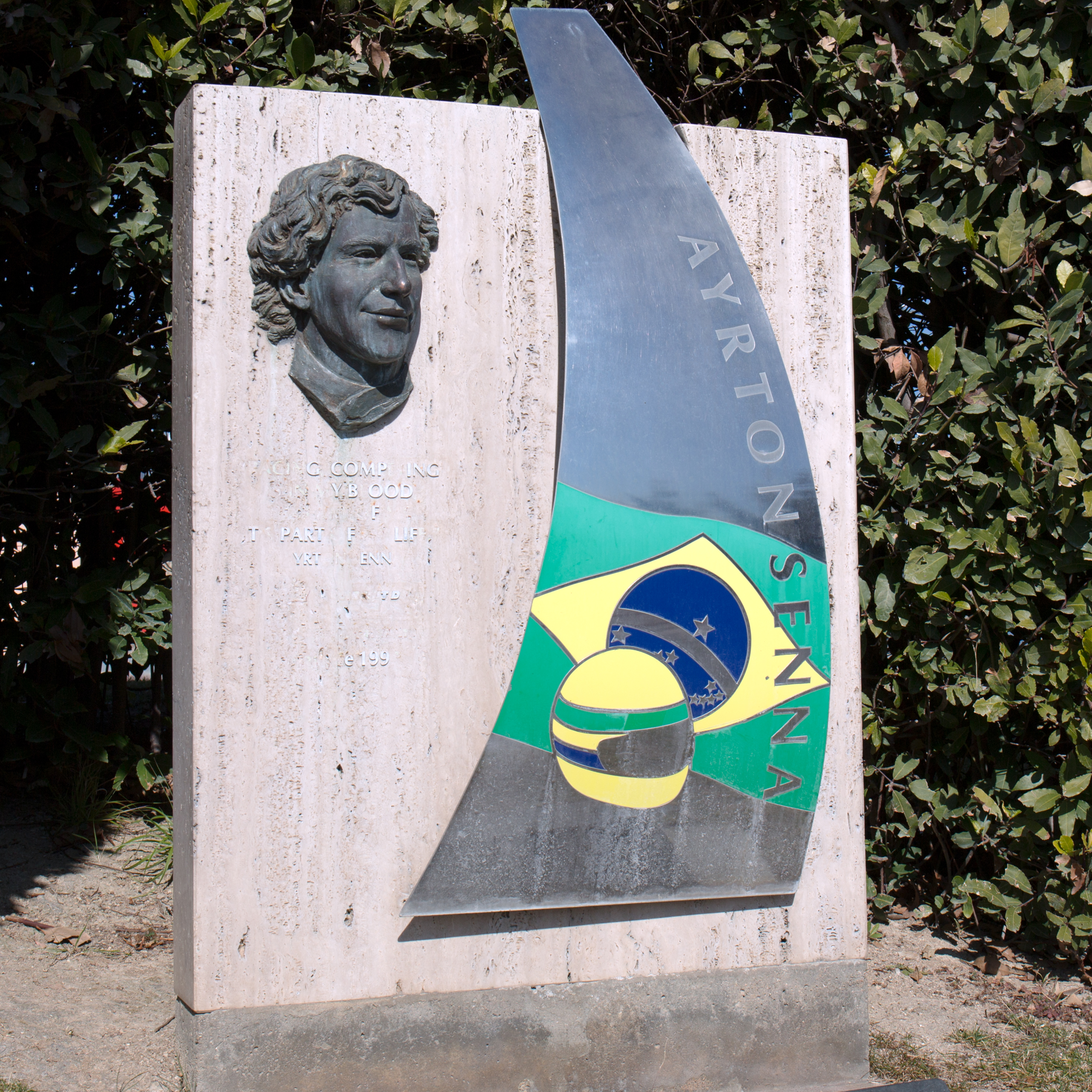 Ayrton Senna monument in Catalonia Circuit.